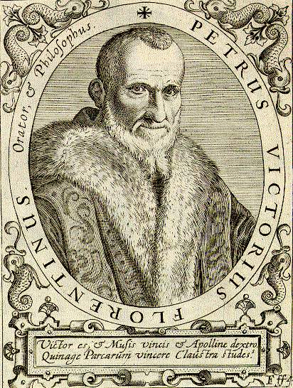 Pier Vettori (Petrus Victorius), printing from Boissard, Jean-Jacques edition, 1652-1669